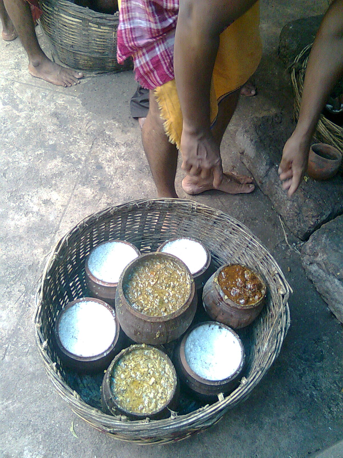 naivedyas offered to Ananta Vasudeva